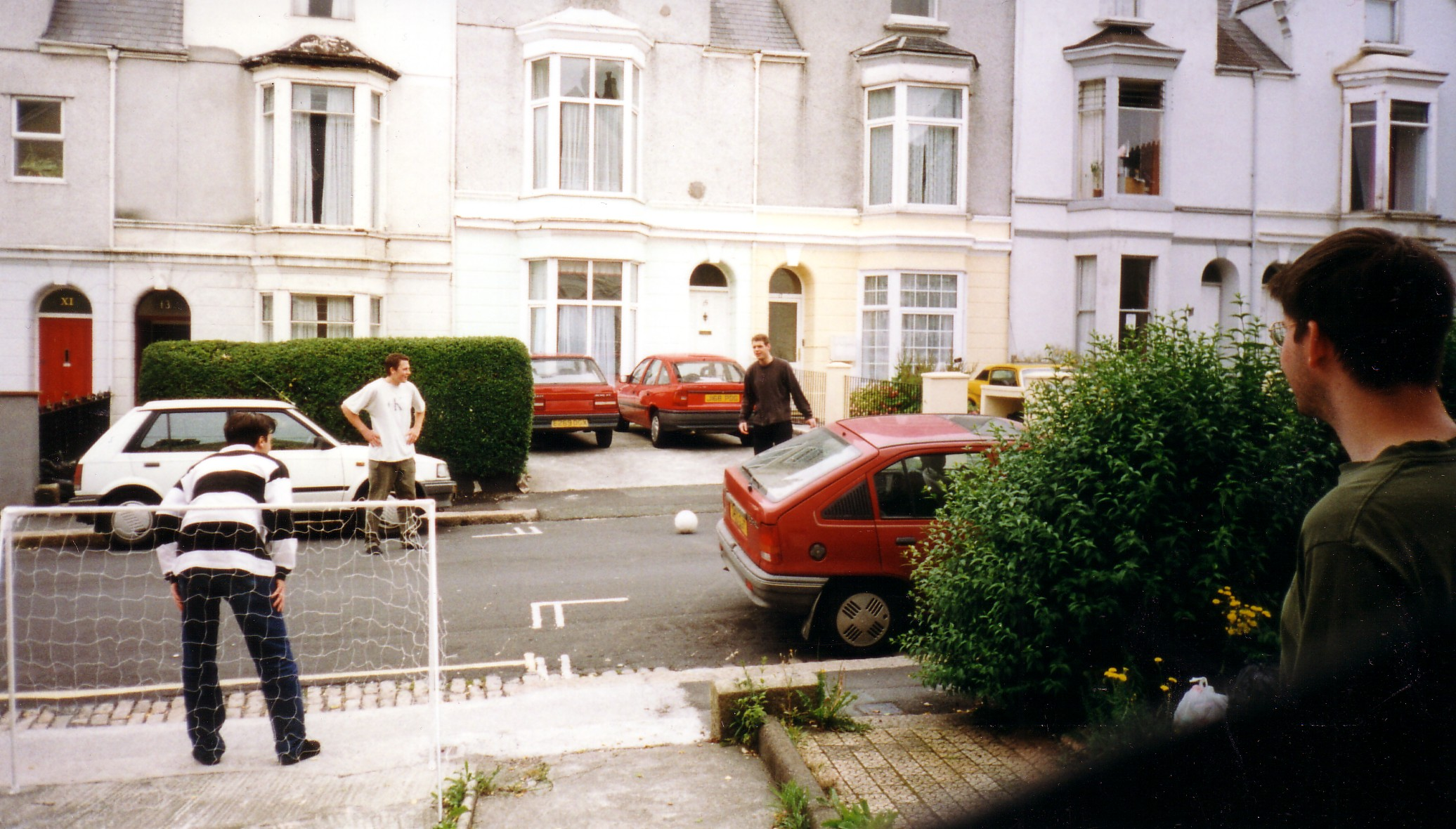 Street football.